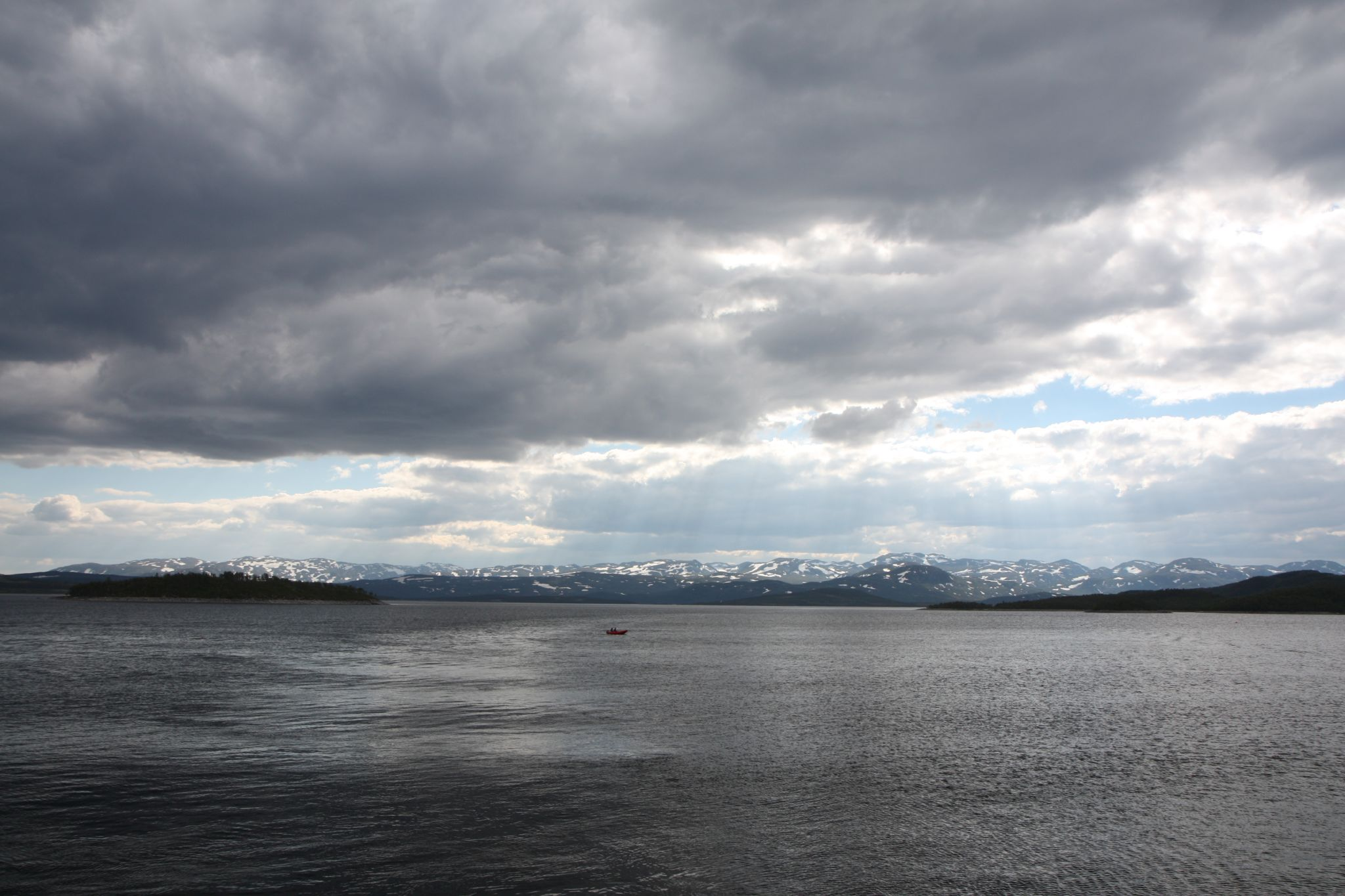 A picture of Storfjorden på Møsvatn